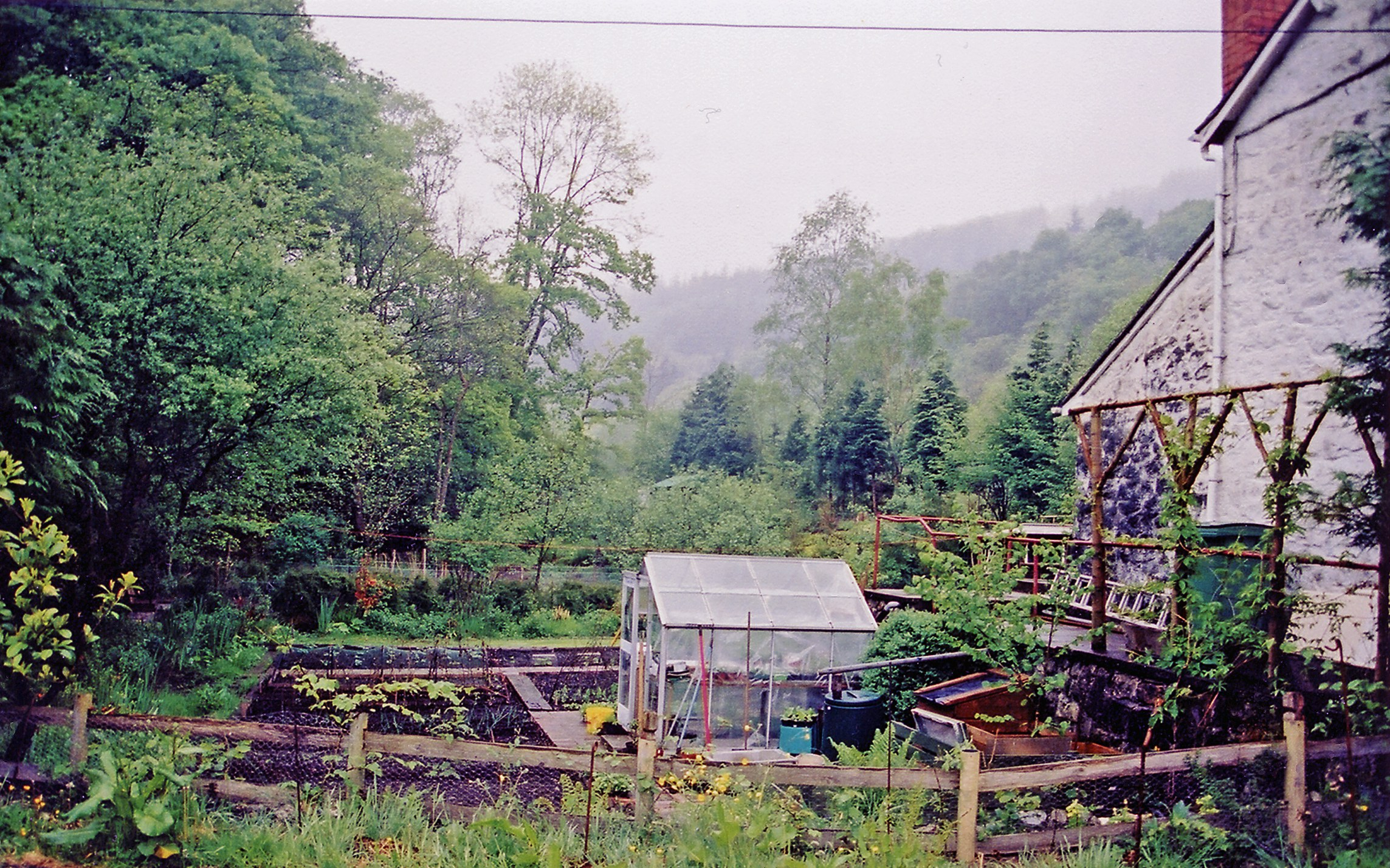 Drws-y-Nant: former station. View SW, towards Dolgellau and Barmouth Junction: ex-GWR Ruabon - Llangollen - Bala Junction - Dolgelley - (Barmouth Junction) line, closed 14/12/64 by floods, officially 18/1/65. By 2001 the station and line are somewhat altered!